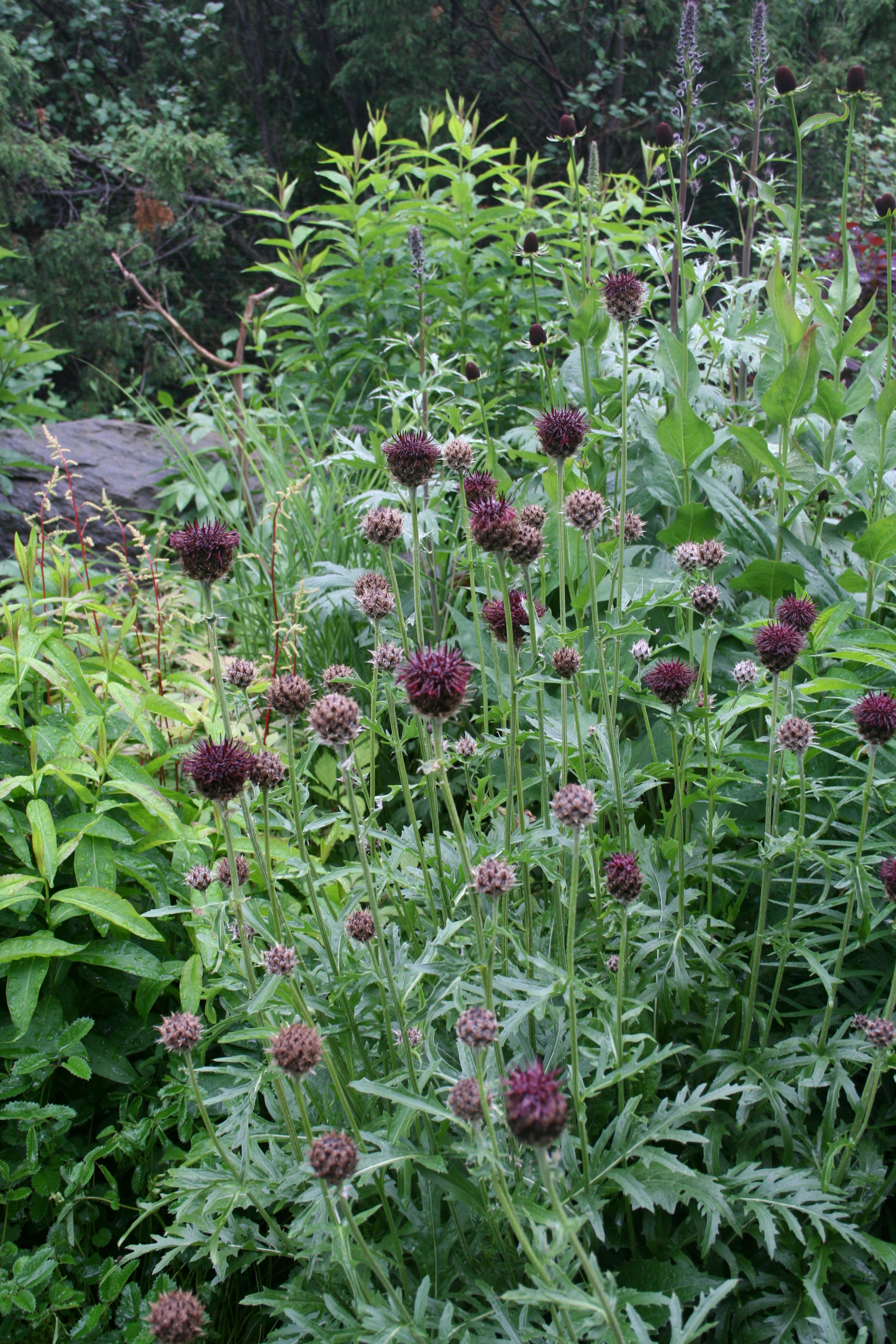 Centaurea kotschyana